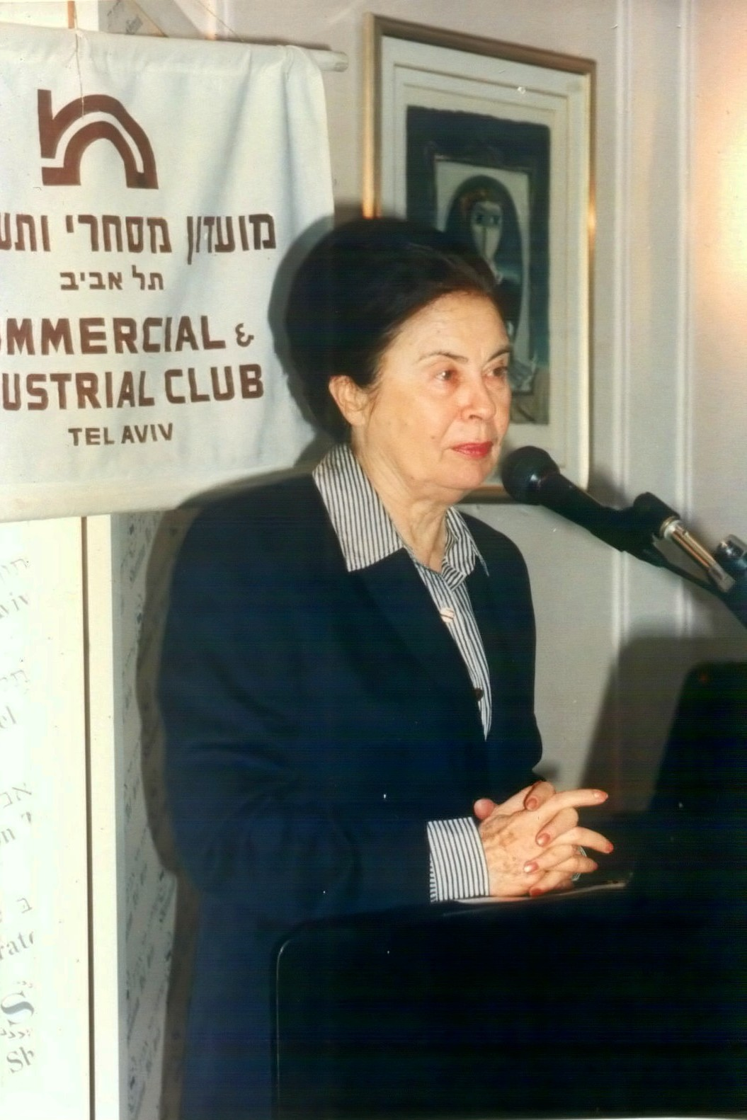 Ora Namir at the Ci-Club